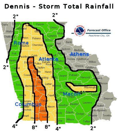 A rainfall map showing rainfall totals in Georgia for Hurricane Dennis.